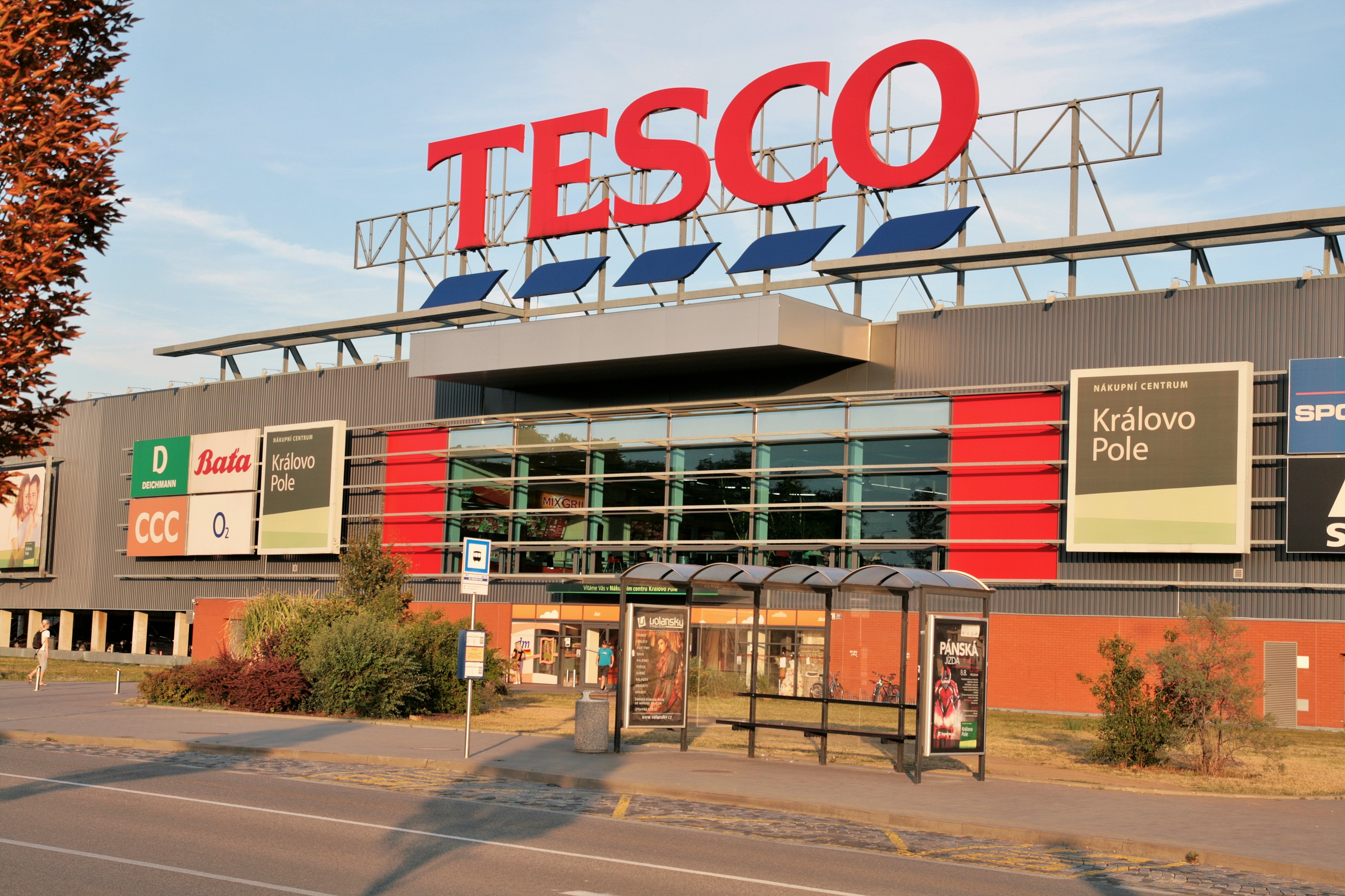 Shopping centre Královo Pole in Brno, Czech Republic.